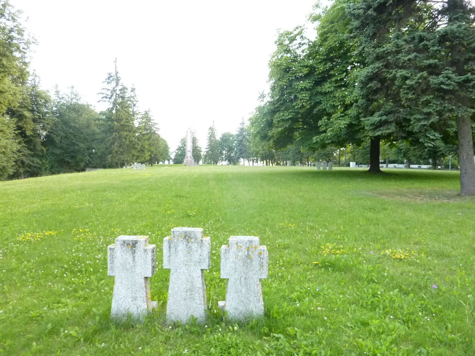 German War Cemetery Šiauliai / Lithuania. Cemetery for German Soldiers of the Great War and WWII. In background an obelisk erected 1936 in memory of Lithuanian Rebels of 1863. The location today is tagged "Hill of Rebels" in local tourist info.